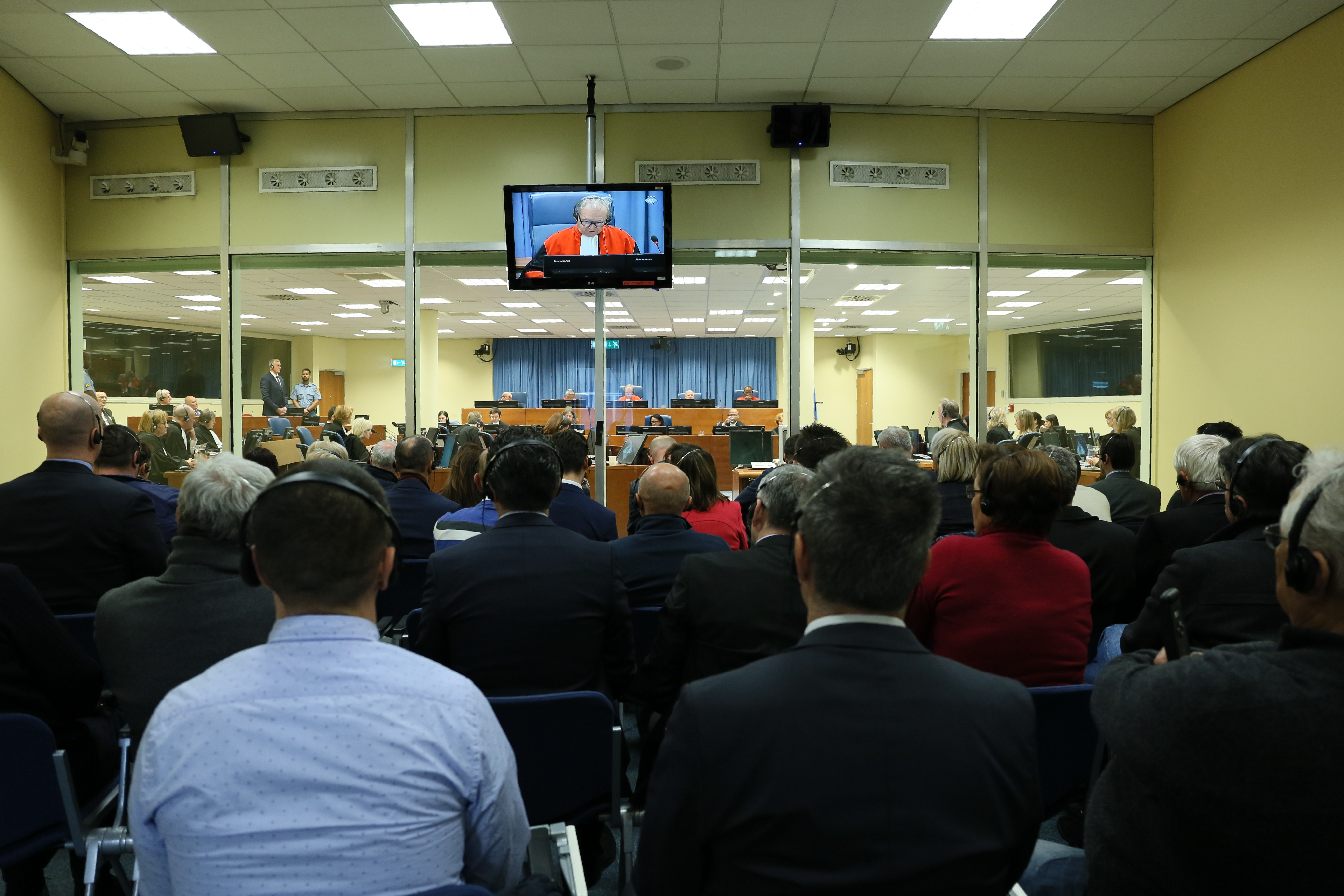 29 November 2017 - Courtroom 3 and Presiding Judge President Agius at the Prlić Appeals Judgement.